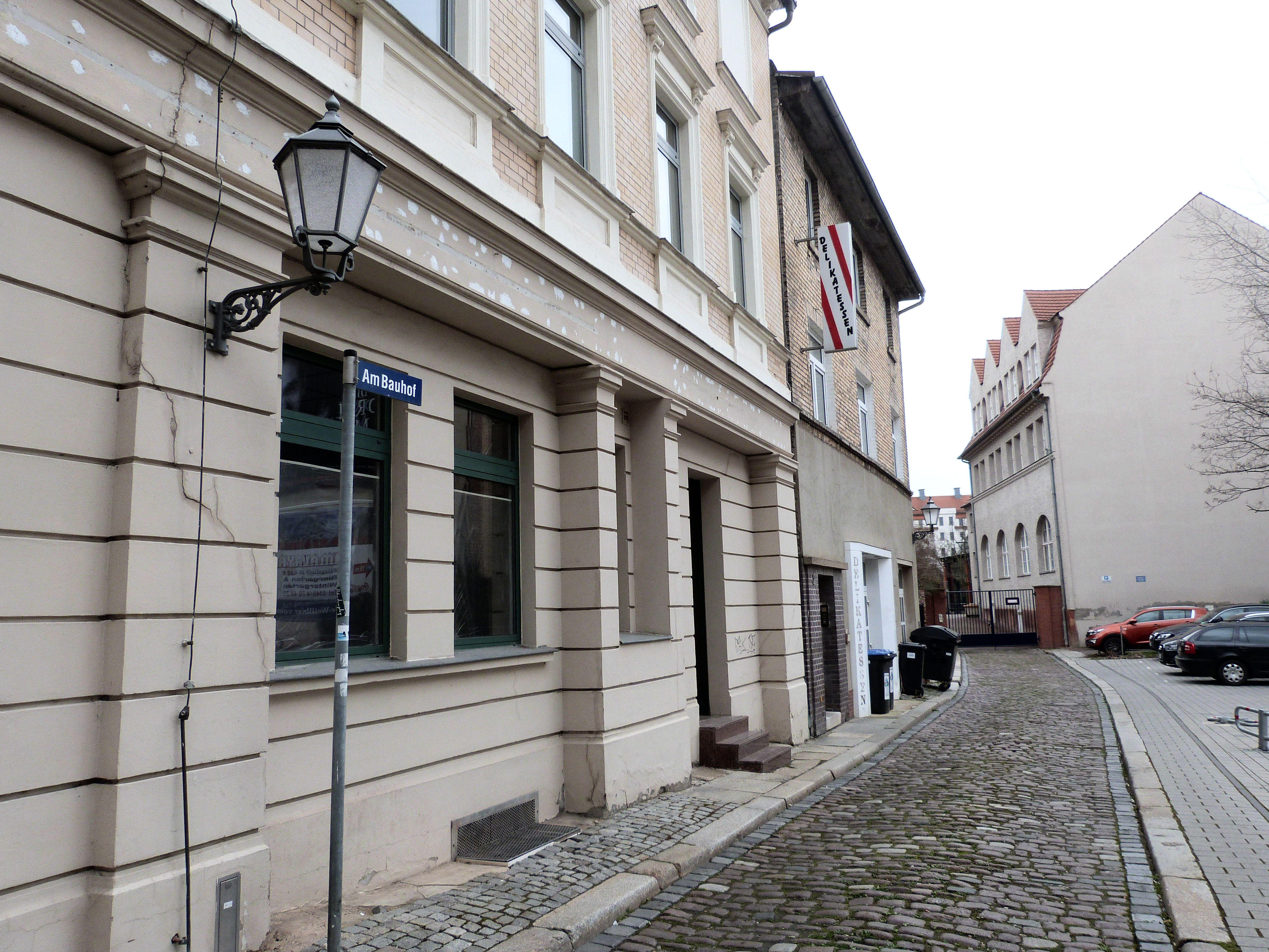 Lane Am Bauhof to south, Halle (Saale)